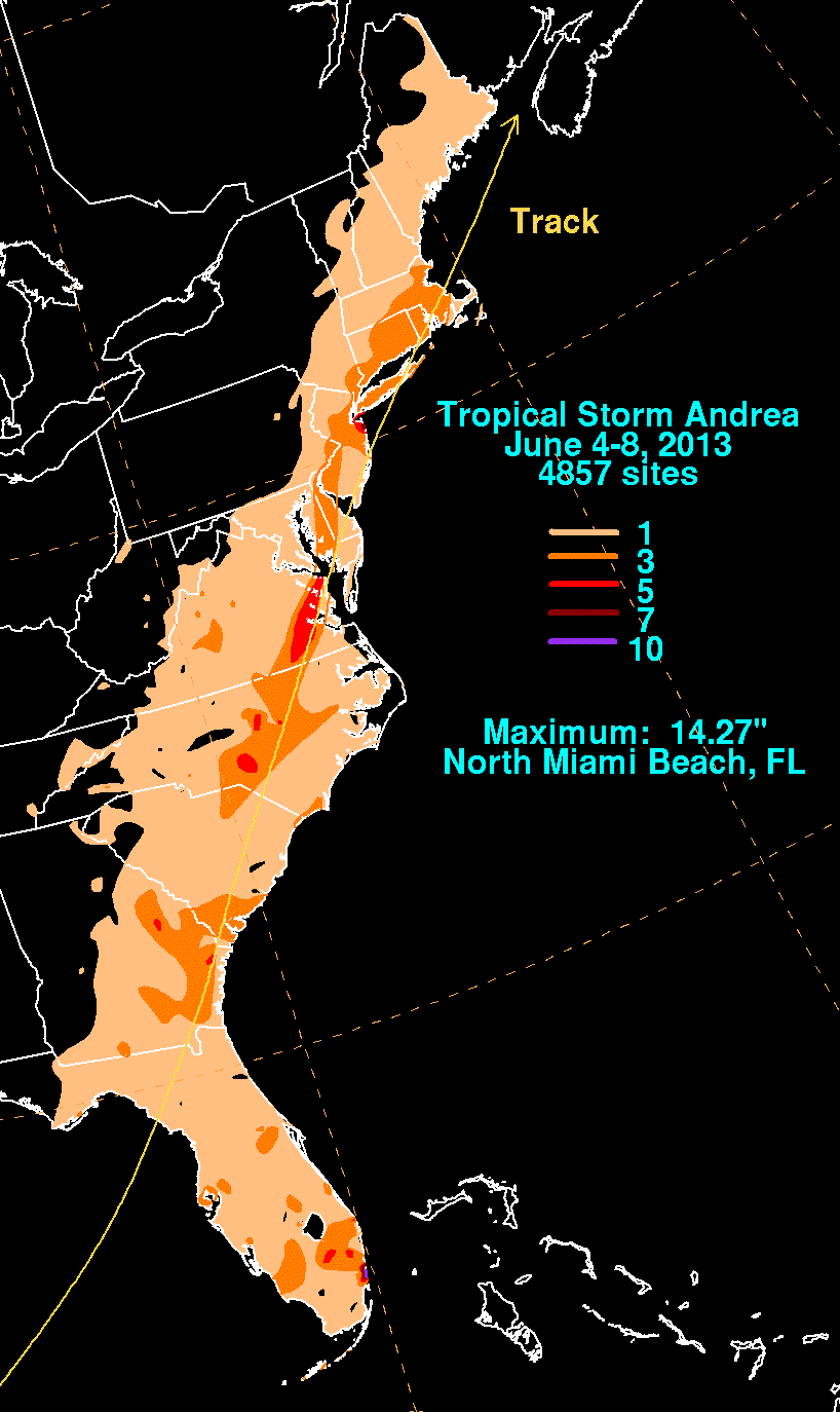 Rainfall totals associated with Tropical Storm Andrea (2013)